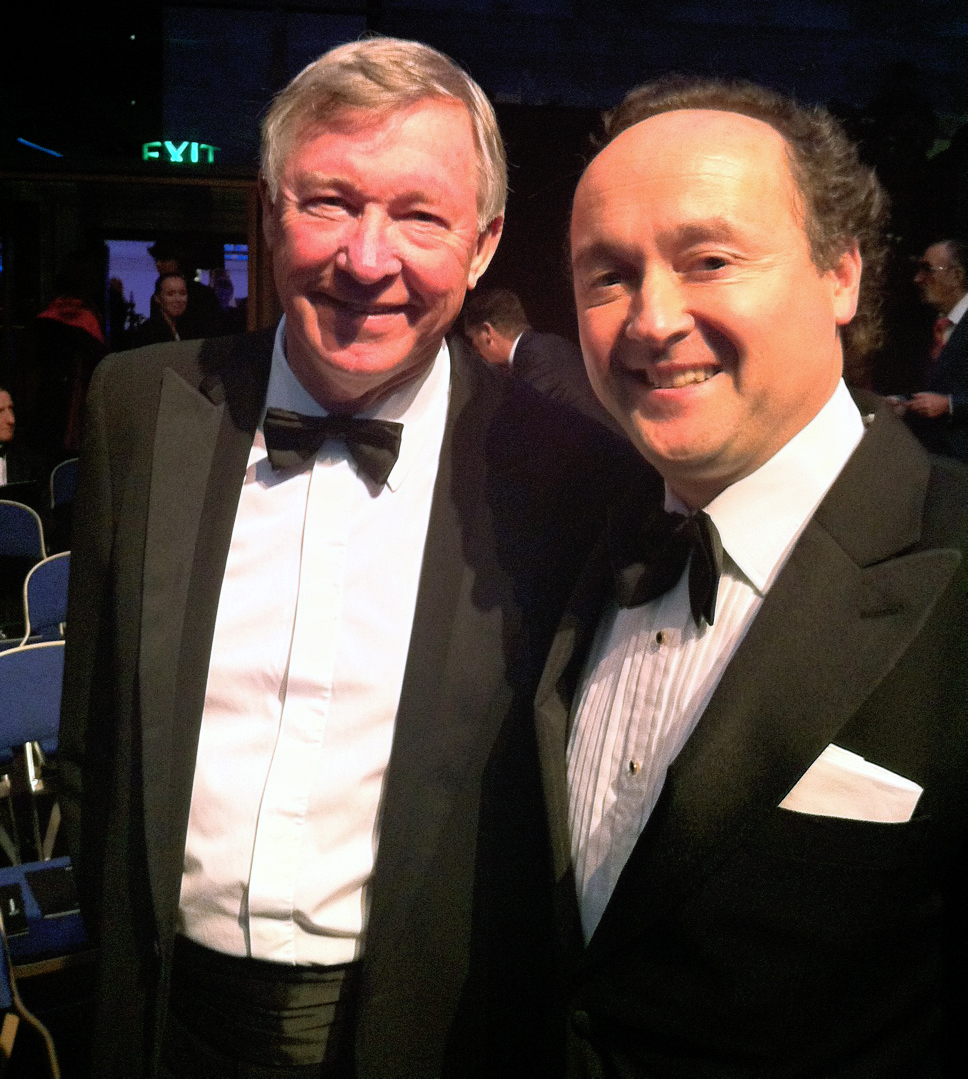 Rafael Serrano with Alex Ferguson